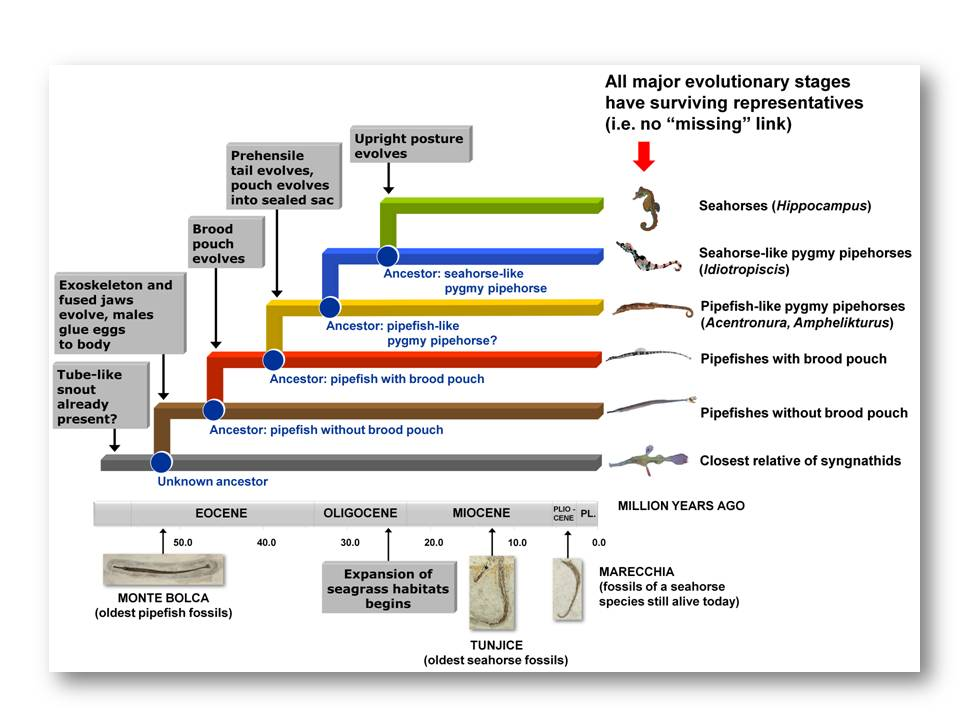 A simplified phylogeny depicting the evolution of seahorses from a pipefish-like ancestor